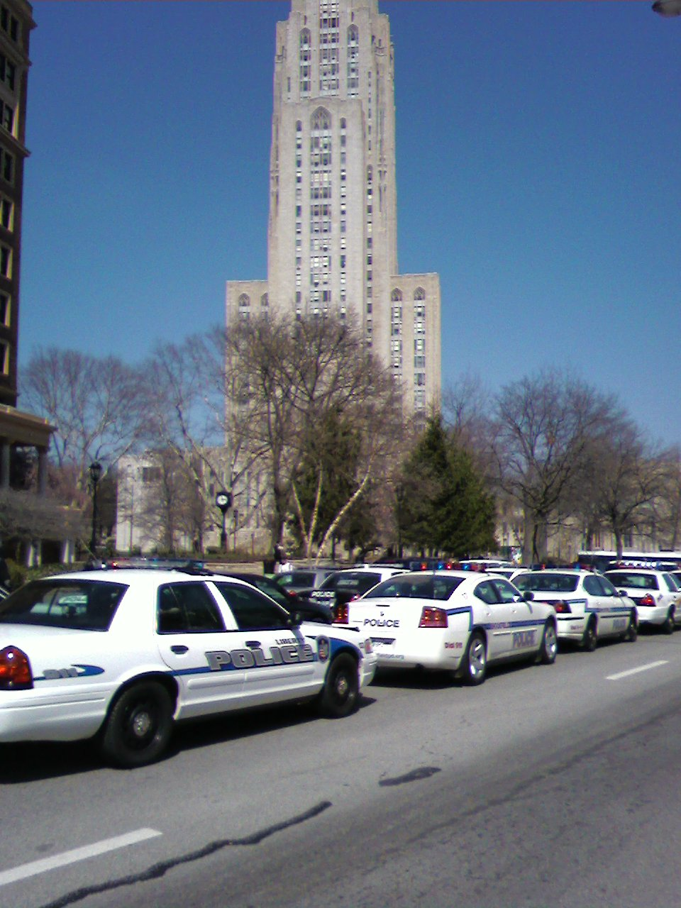 Police cars along Forbes Avenue for the funeral of three Pittsburgh police officers